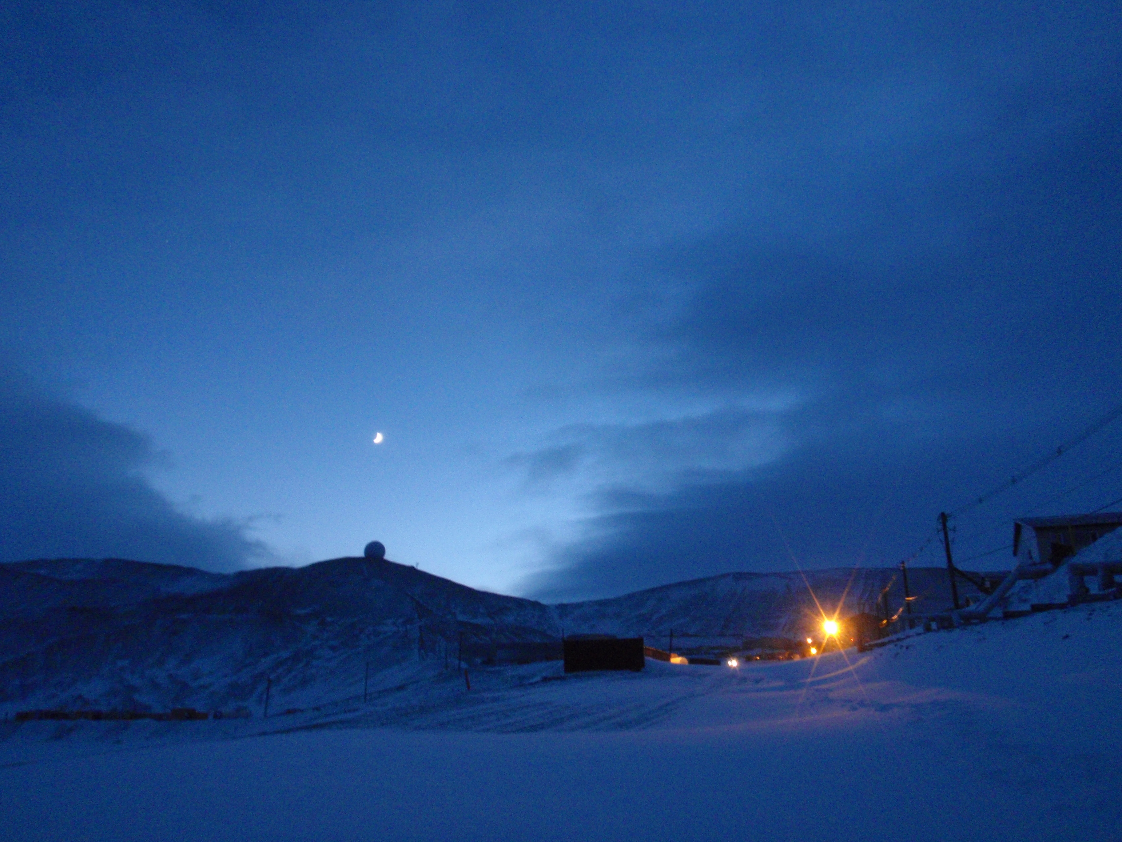 Crescent Moon over Radarsat as the Sun begins to shine from behind the hills. McMurdo Station, Ross Island, Antarctica.